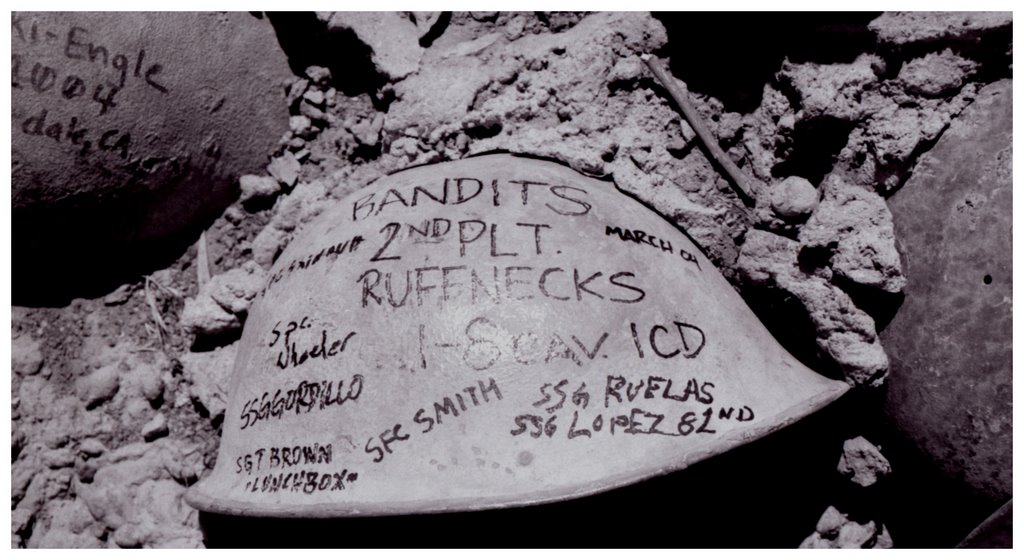 Captured Iranian helmets from the Hands of Victory Monument marked with graffiti. Baghdad, Iraq (April 2004). Photo by Peter Rimar.